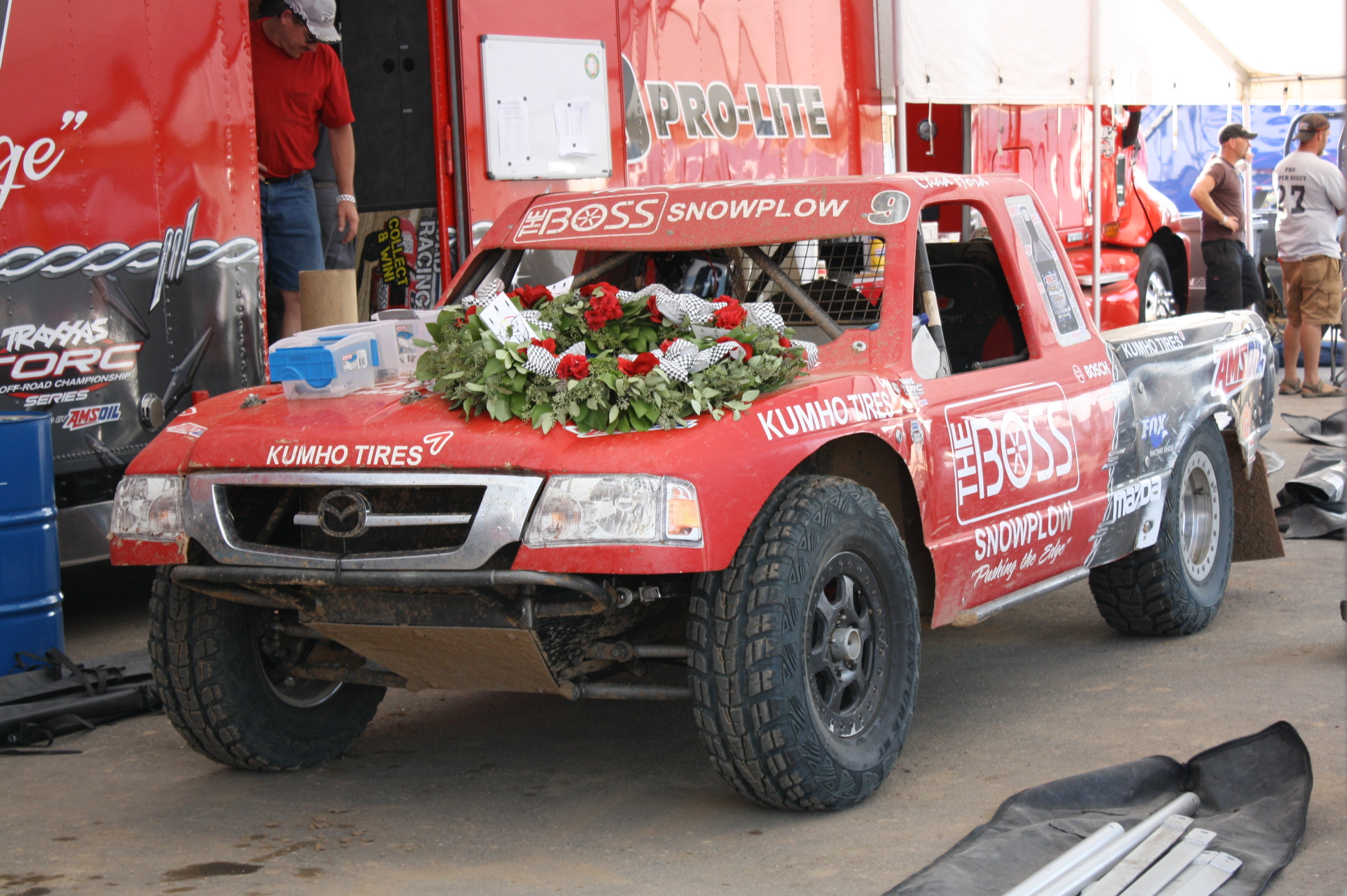 The Pro Lite trophy truck for Chad Hord in the pits at the BorgWarner World Championship races at Crandon International Off-Road Raceway sanctioned by the Traxxas TORC Series.